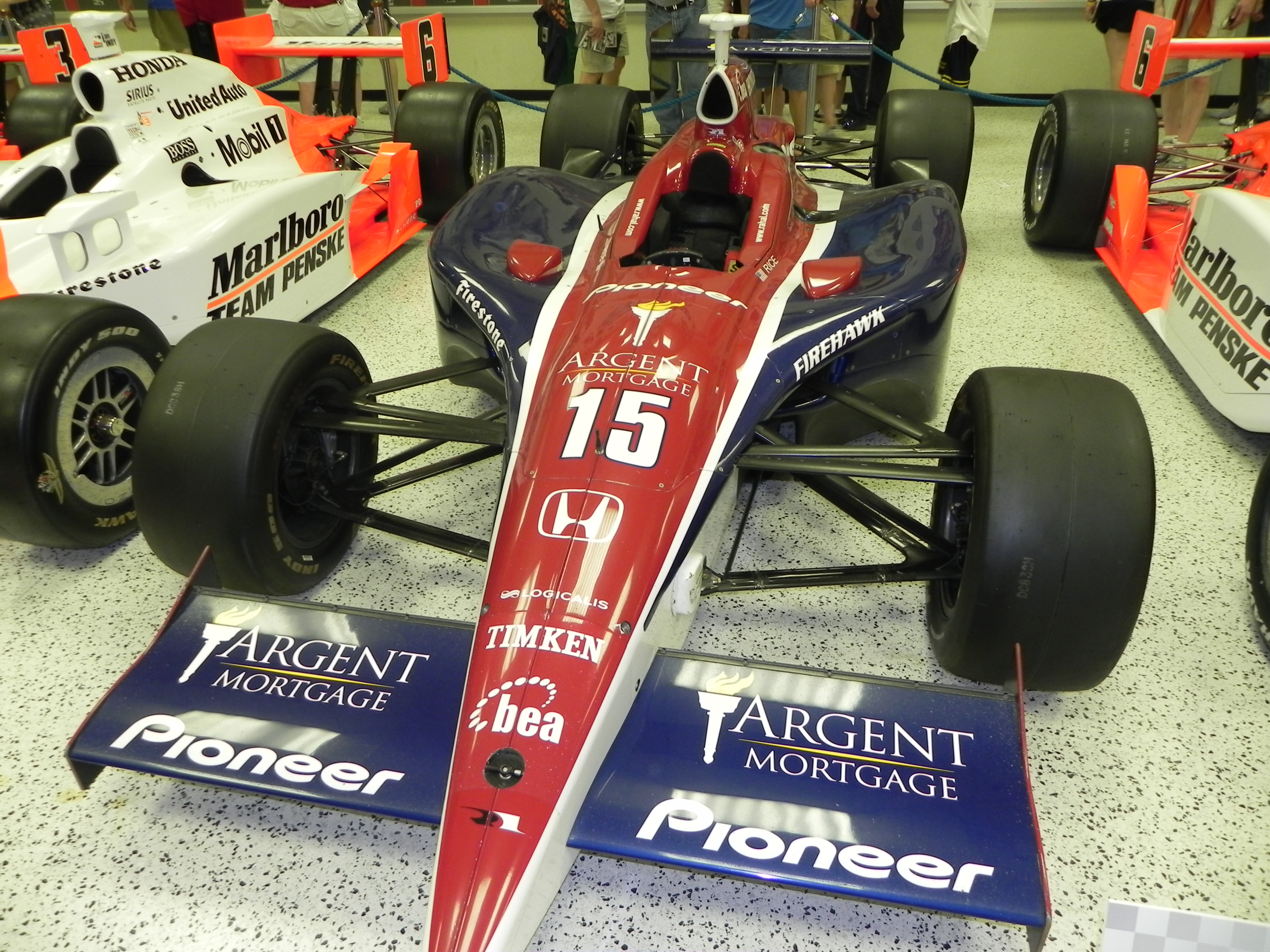 Image of the winning car of the 2004 Indianapolis 500 (Buddy Rice). Photo was taken at the Indianapolis Motor Speedway Hall of Fame Museum, during the month of May 2011, at the 100th Anniversary "Ultimate Indianapolis 500 Winning Car Collection."